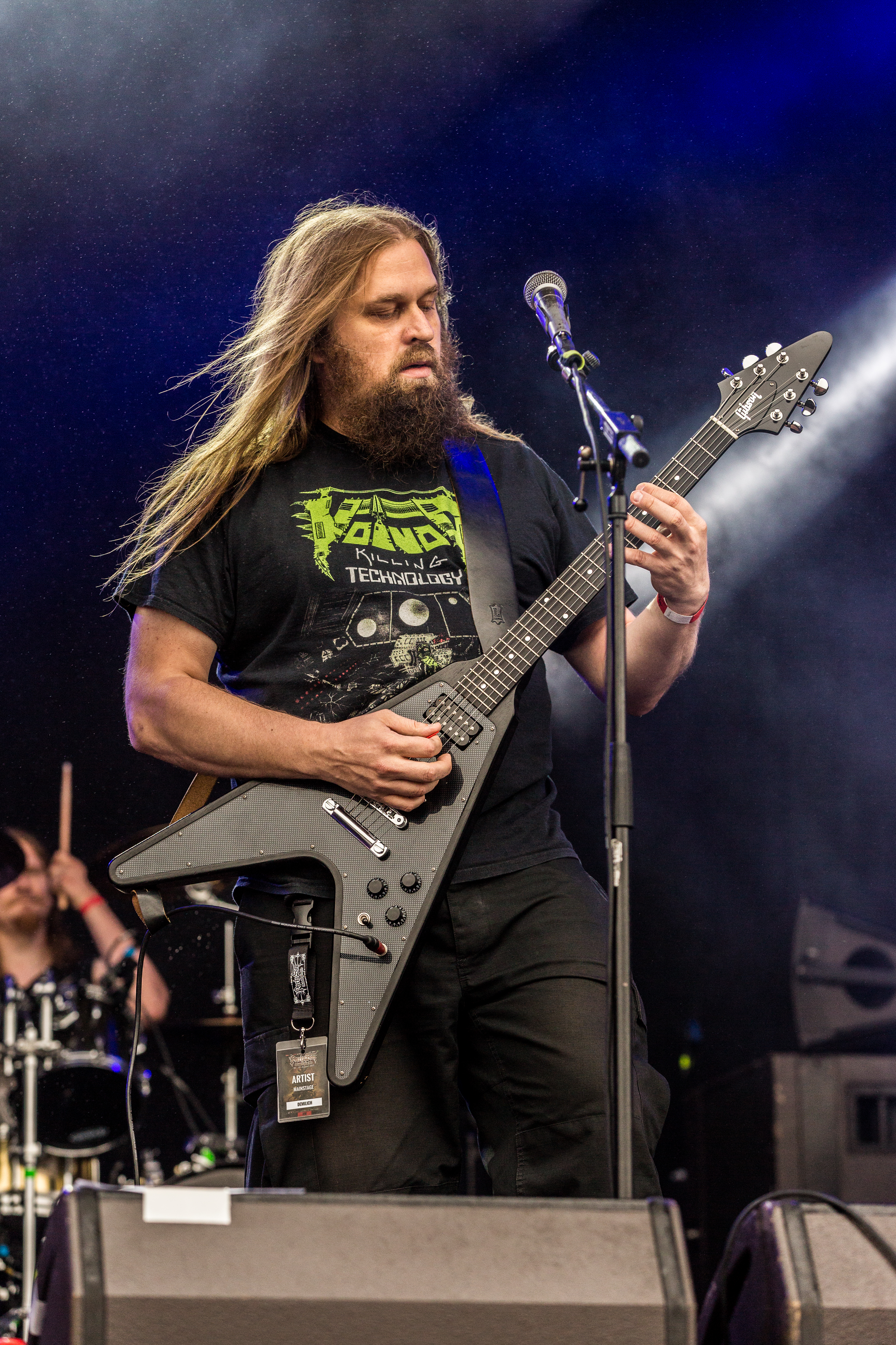 The Finnish technical death metalband Demilich at the Party.San Metal Open Air 2017 in Obermehler-Schlotheim/Germany.